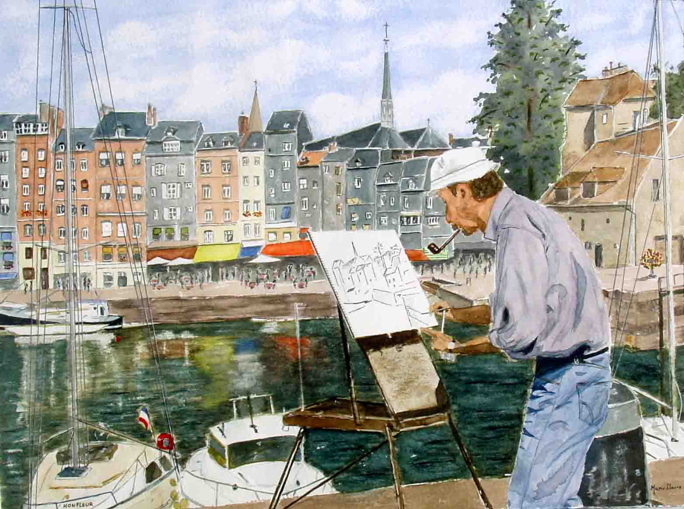 Honfleur, the painter of the old harbor.